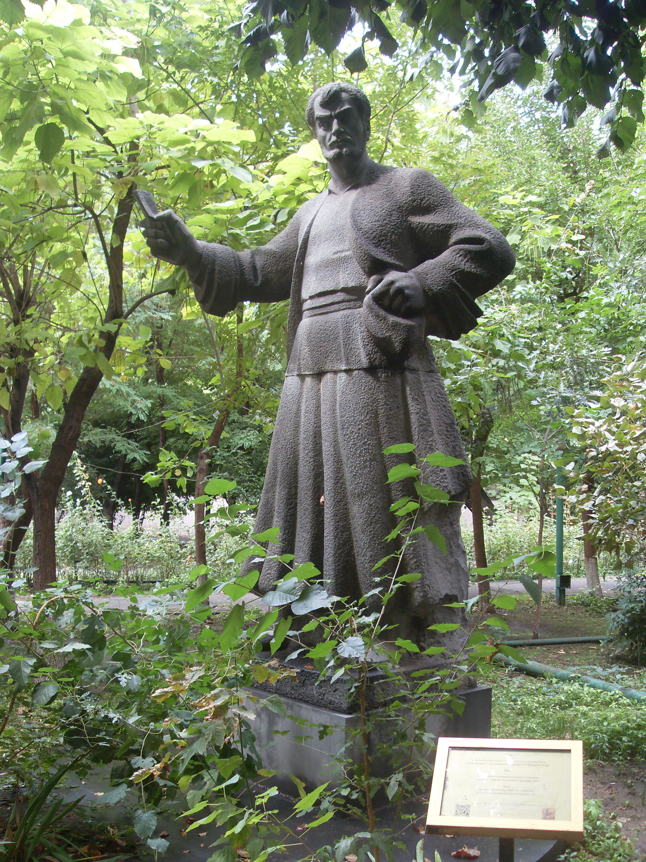 Statue 'Pepo' (the main hero of comedy 'Pepo" by G. Sundukyan, 1972, archit. M. Grigoryan, sculpt. G. Aharonyan 6/139